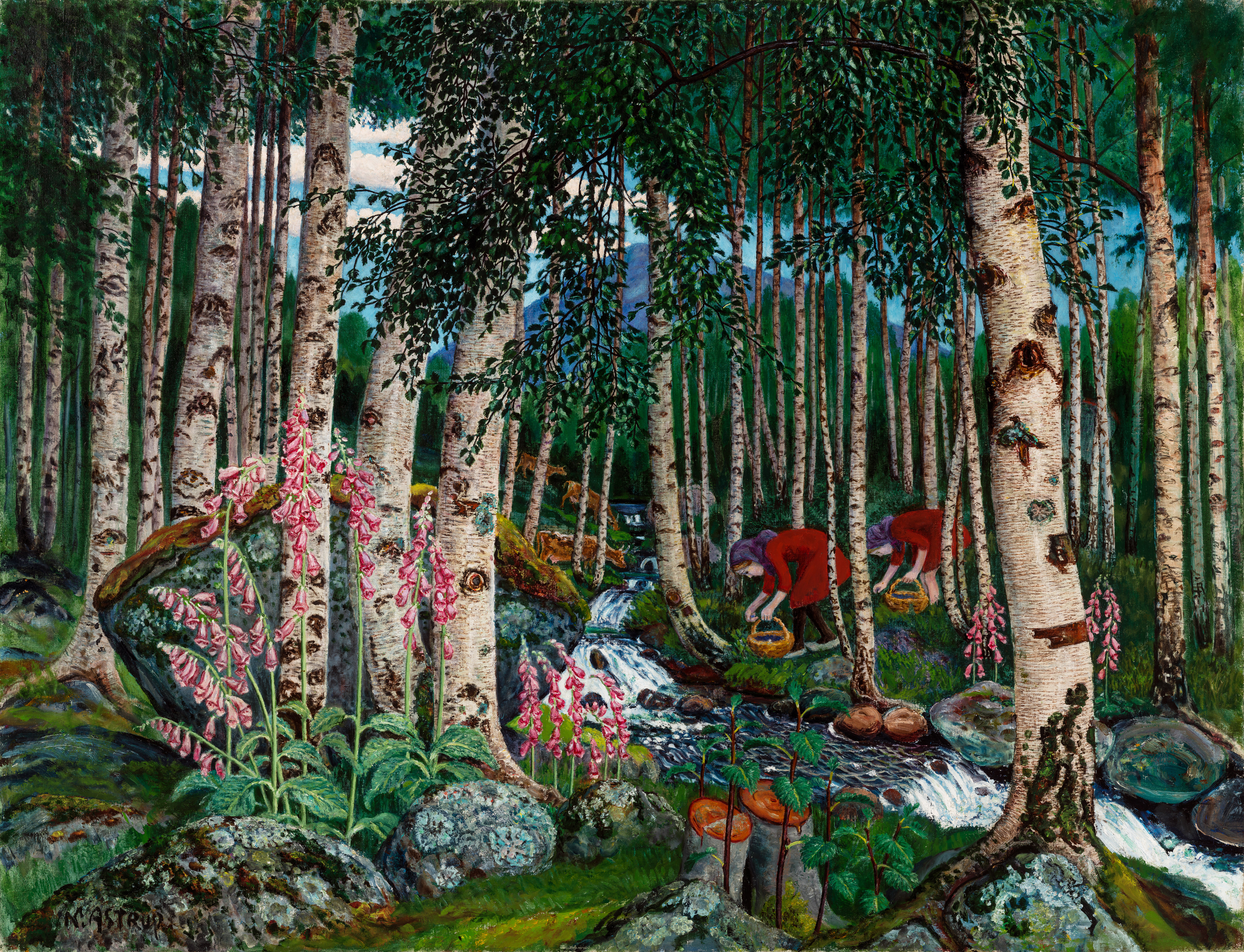 Revebjeller (Foxgloves) by Nikolai Alstrup